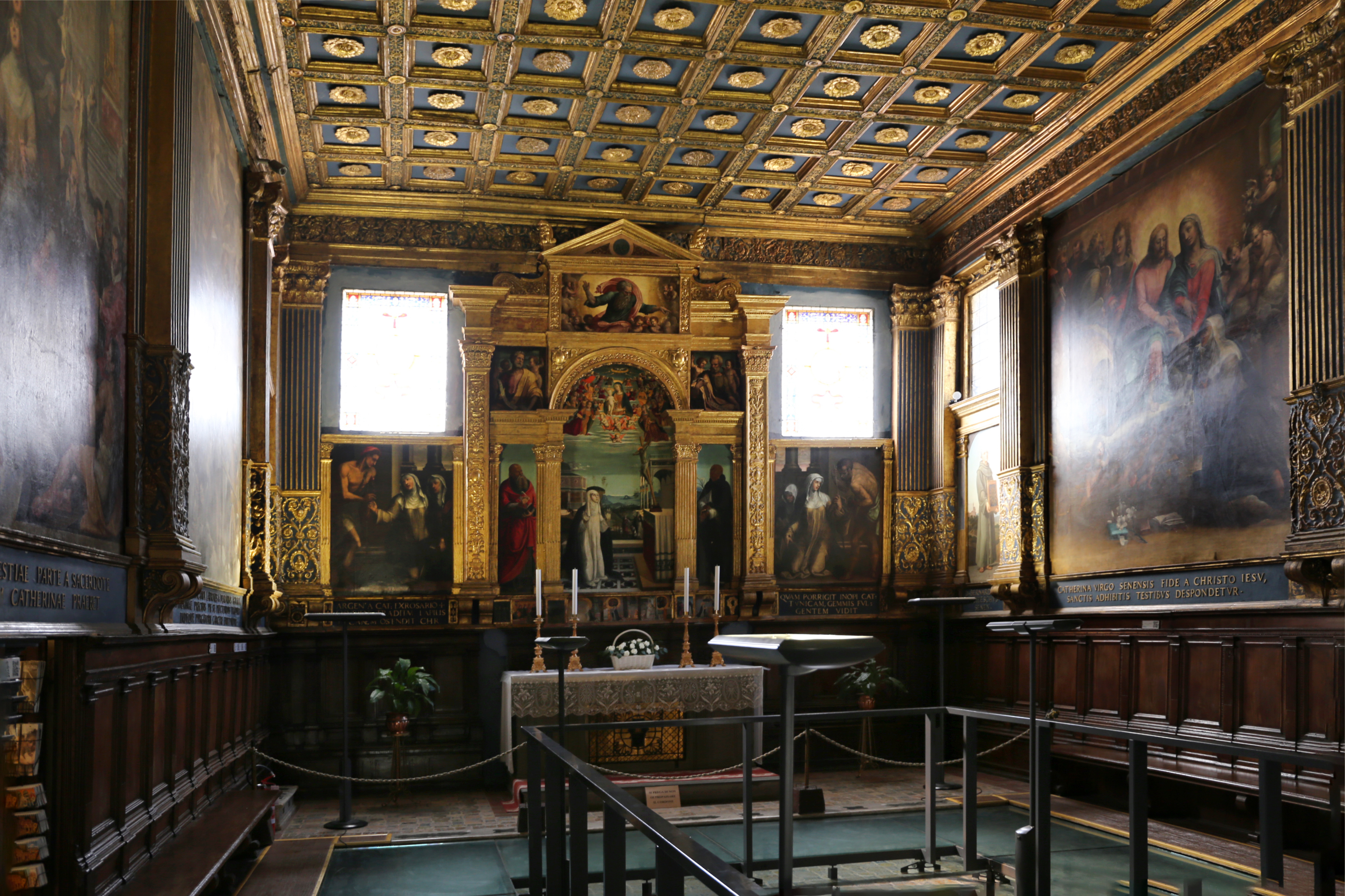 House of Saint Catherine of Siena - Interior